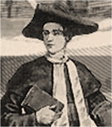 Lithograph of António José da Silva Coutinho [אנטוניו ז'וזה דה סילווה]. Century XVIII. Museum of the Inquisition. Mexico City.